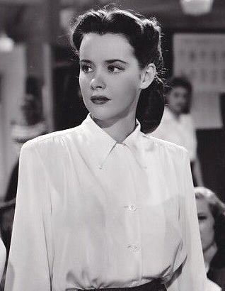 Susan Peters in Keep Your Powder Dry, 1945